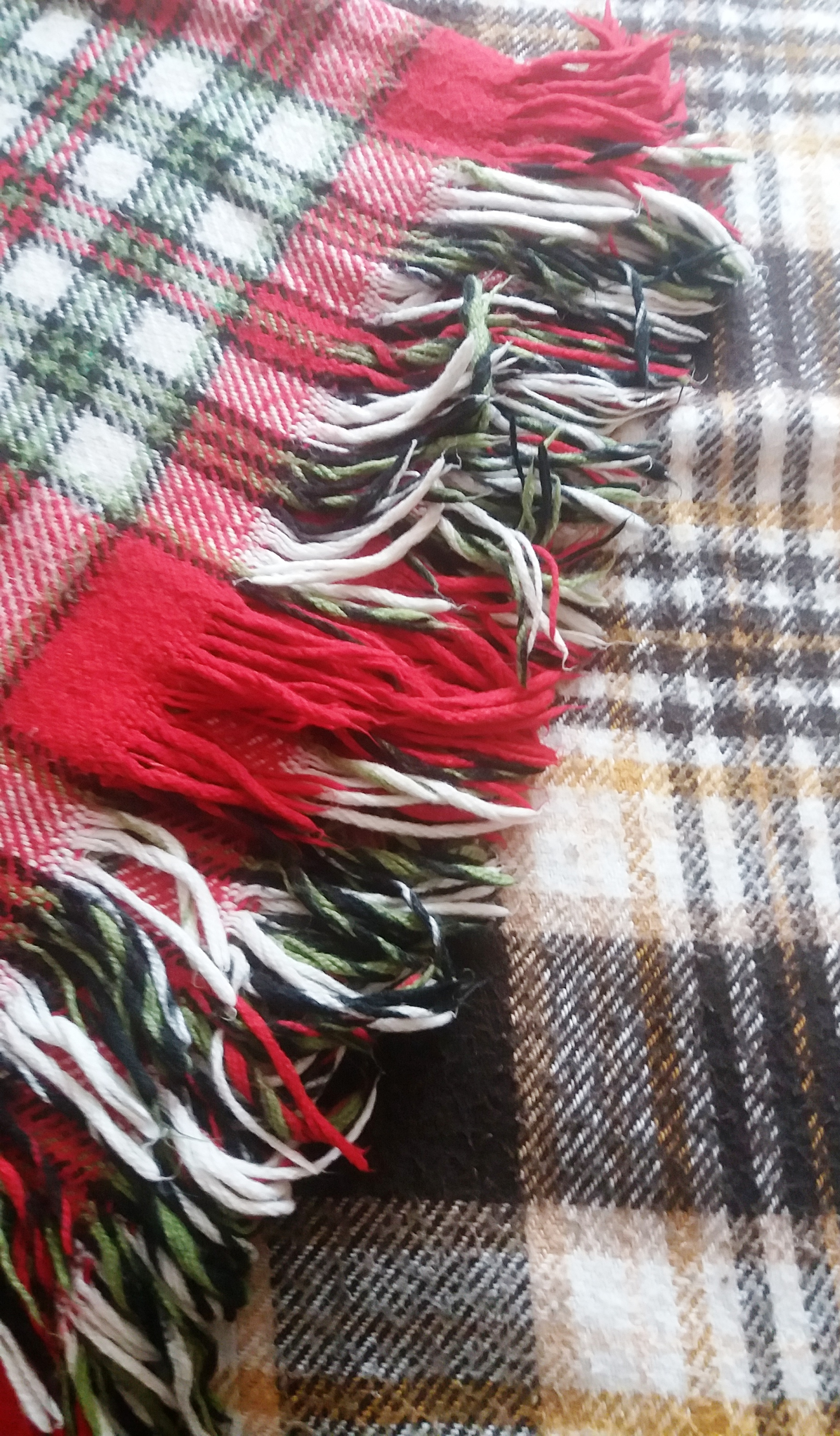 Blanket, cover made of synthetic material with fringes